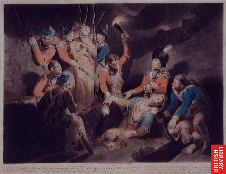 Finding the Body Of Tippoo Sultan', a coloured engraving by Samuel William Reynolds, London, 1800